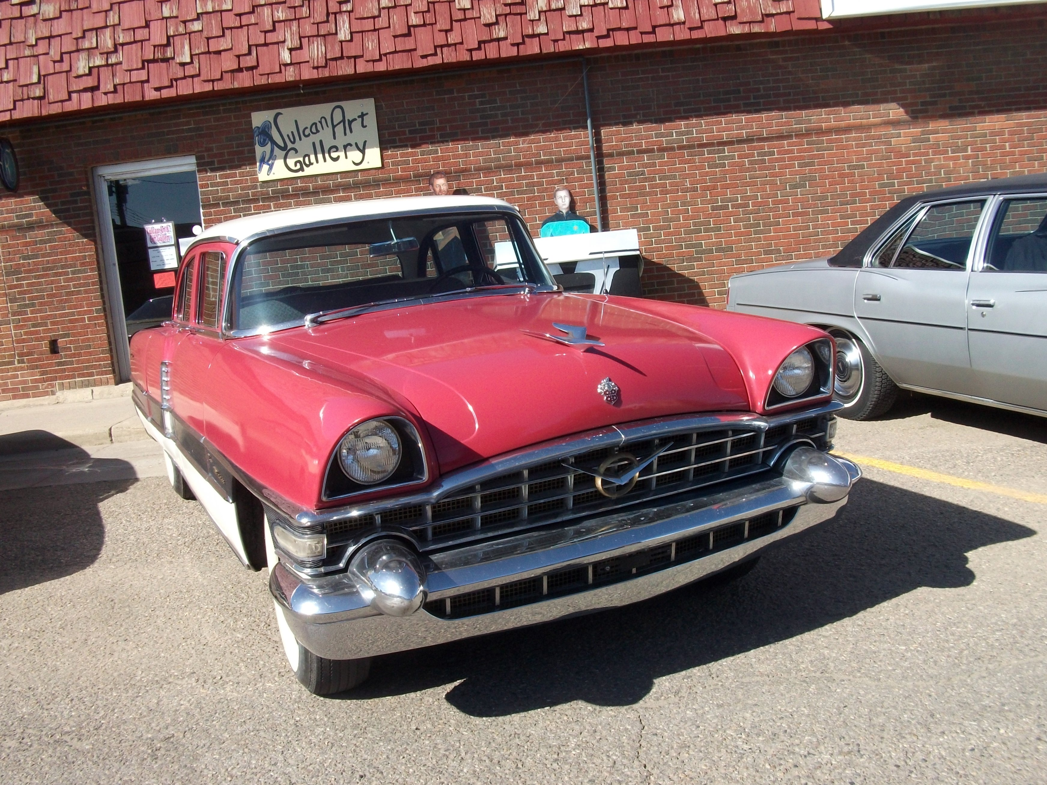 1956 Packard Patrician Touring Sedan (Model 5682) painted in in Scottish Heather and Dover White